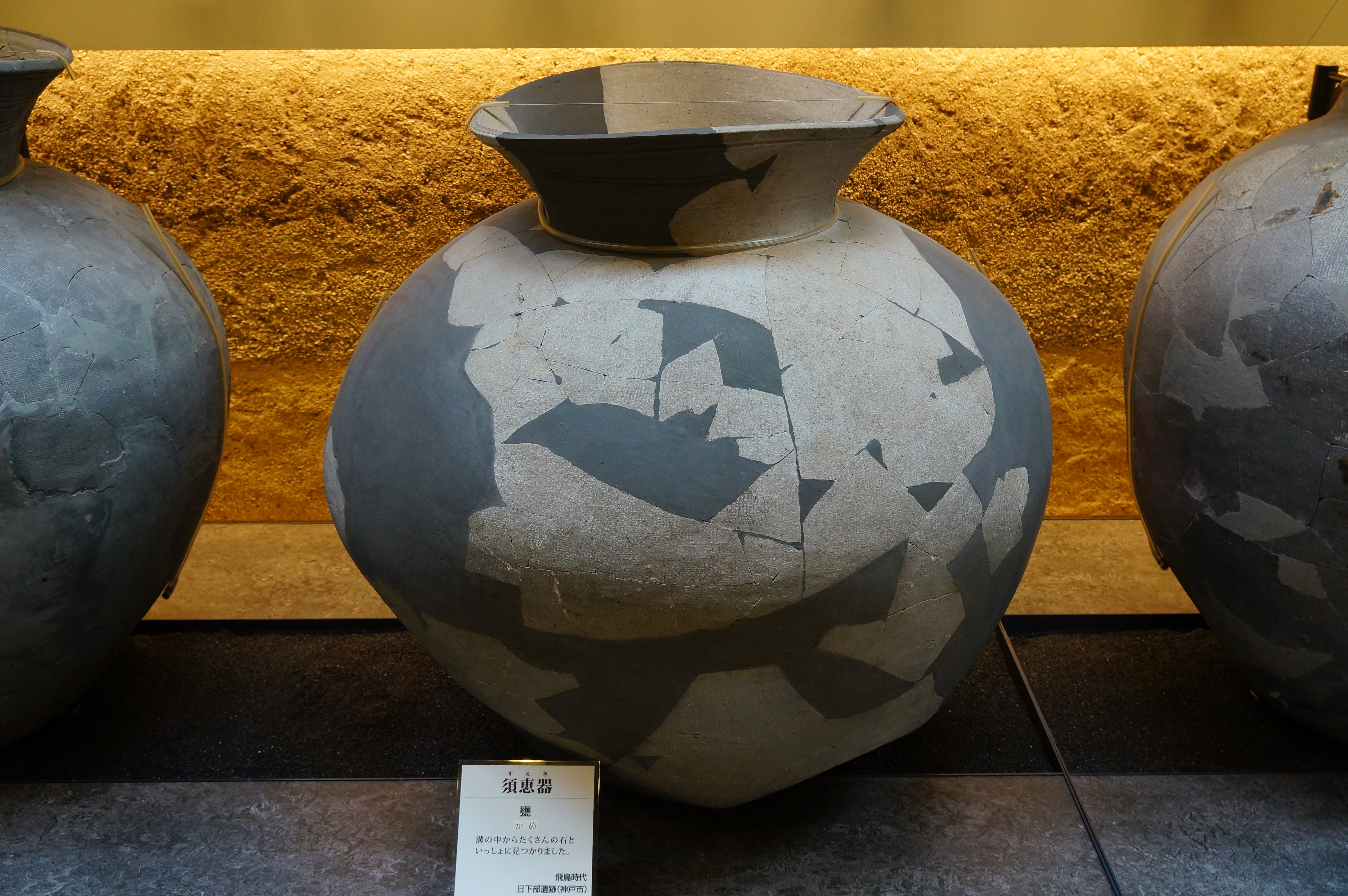 At Hyogo Prefectural Museum of Archaeology in Harima, Hyogo prefecture, Japan.